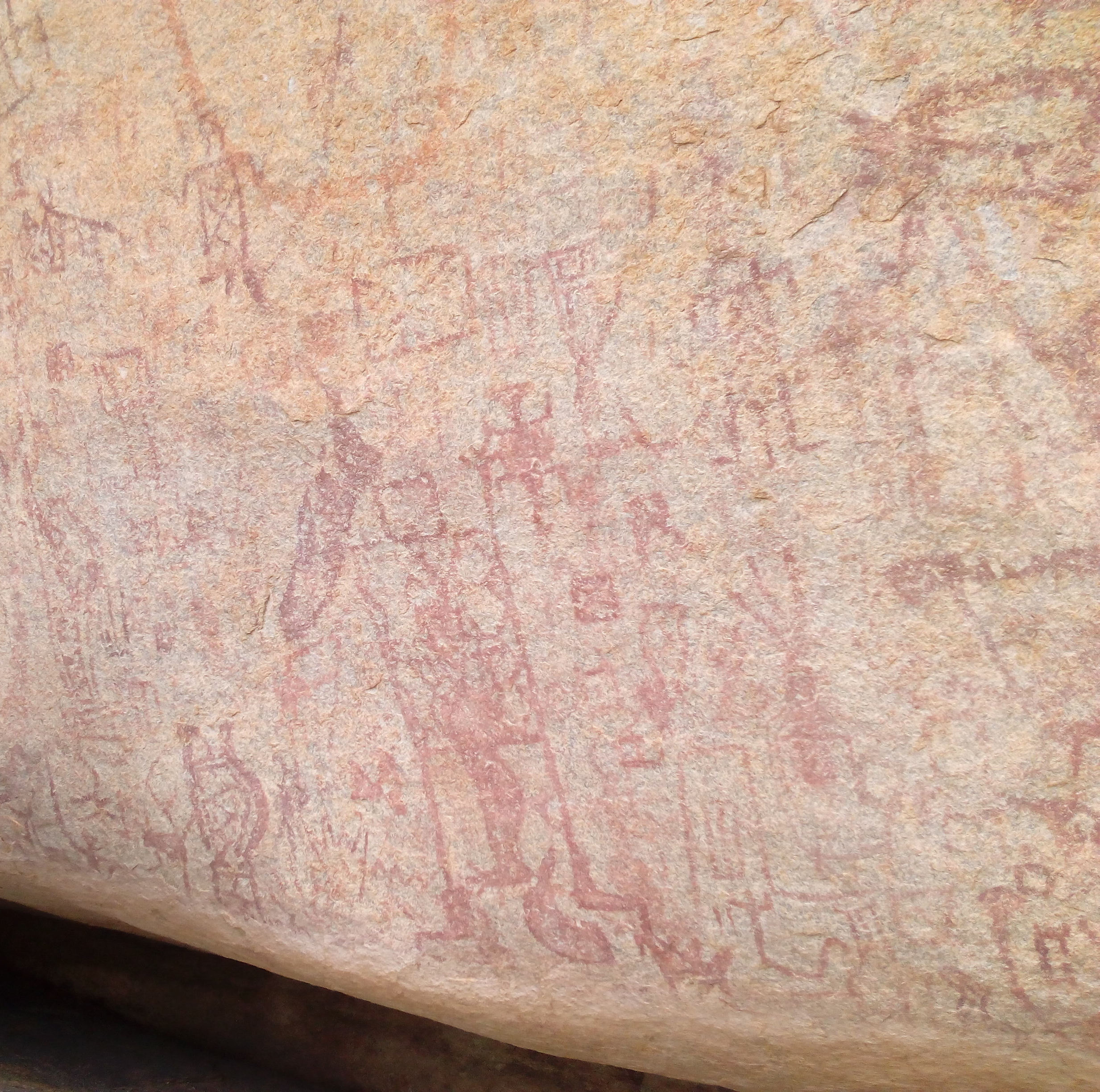 Prehistoric rock drawings in Balichakra near Yadgir town ಕನ್ನಡ: ಯಾದಗಿರಿ ಪಟ್ಟಣದ ಬಳಿಚಕ್ರ ಹಳ್ಳಿಯಲ್ಲಿರುವ ಆಧಿಮಾನವ ಕಾಲಾದ ರೇಖಾ ಚಿತ್ರಗಳು